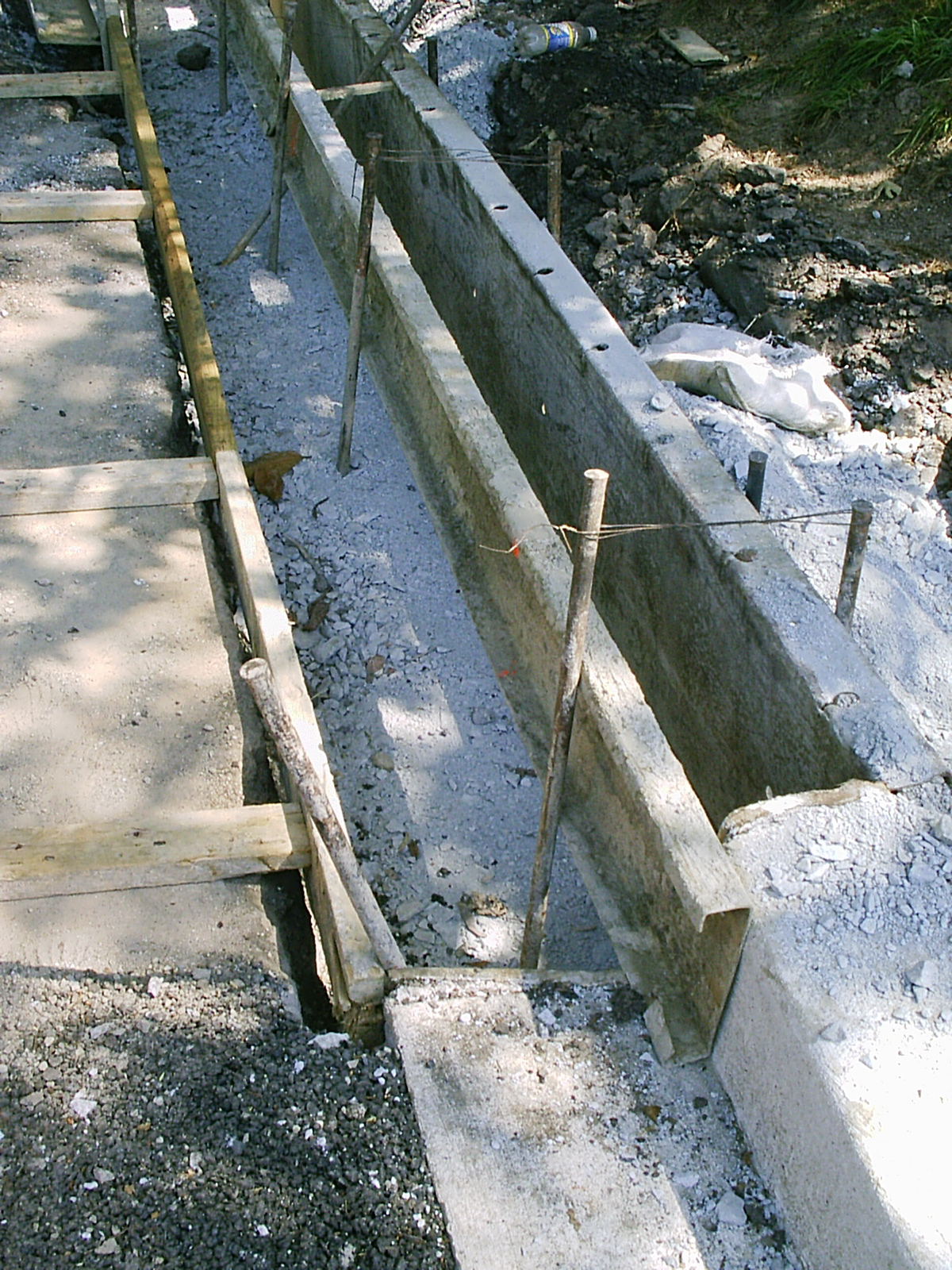 Close up of the metal forms as used in constructing a curb before concrete is poured into them.